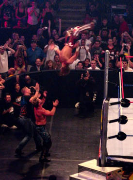 Moonsault attack from the top of the corner to the outside